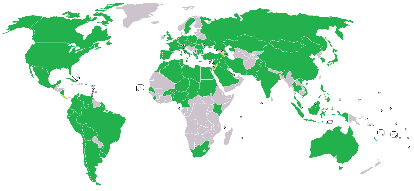 dark green - members light green - applicants Other information Based on File:World map model.png.[1]